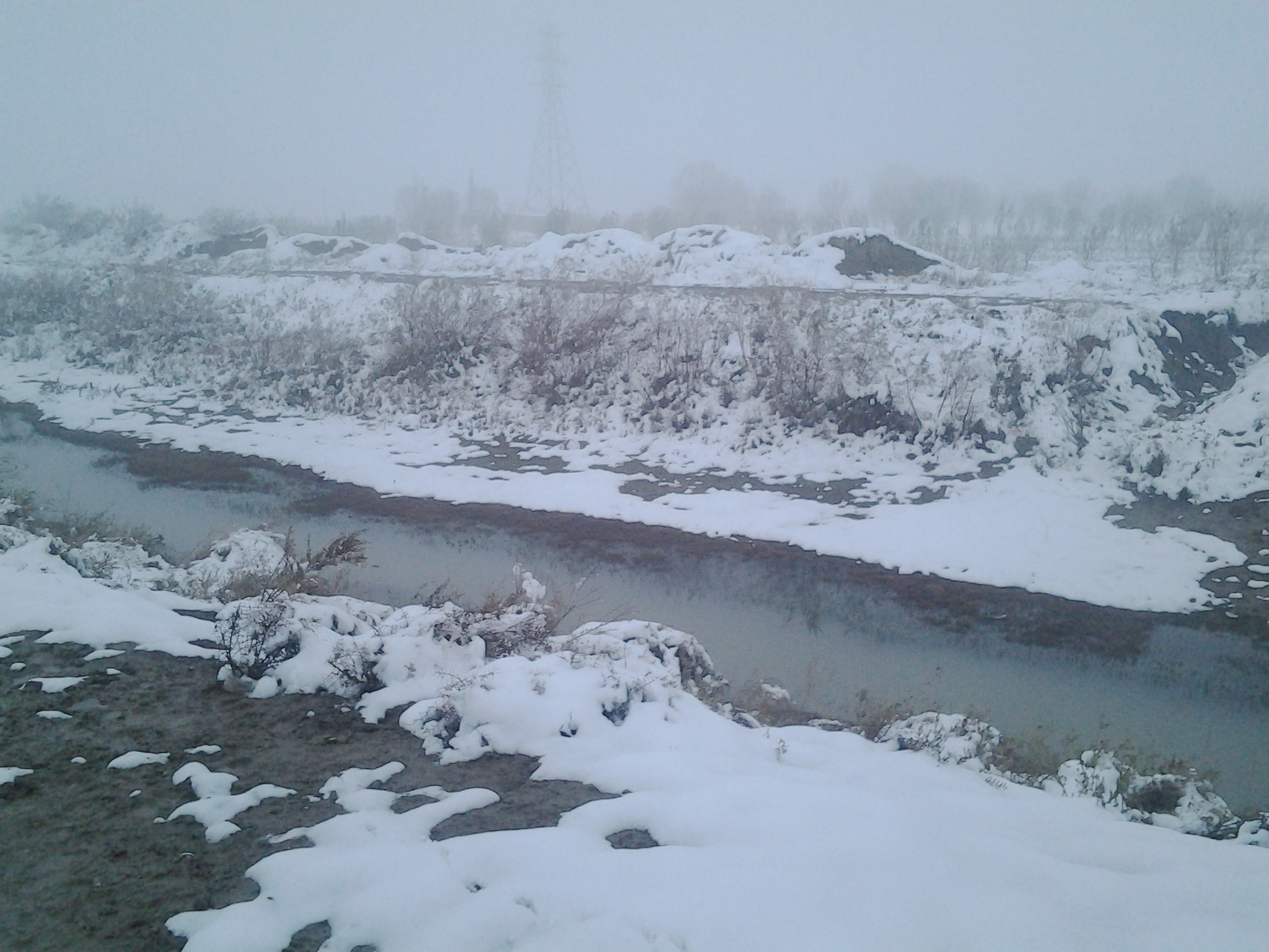 Shurbuloqsoy river in lower reaches, near the Yangiyer city, Sirdaryo province, Uzbekistan